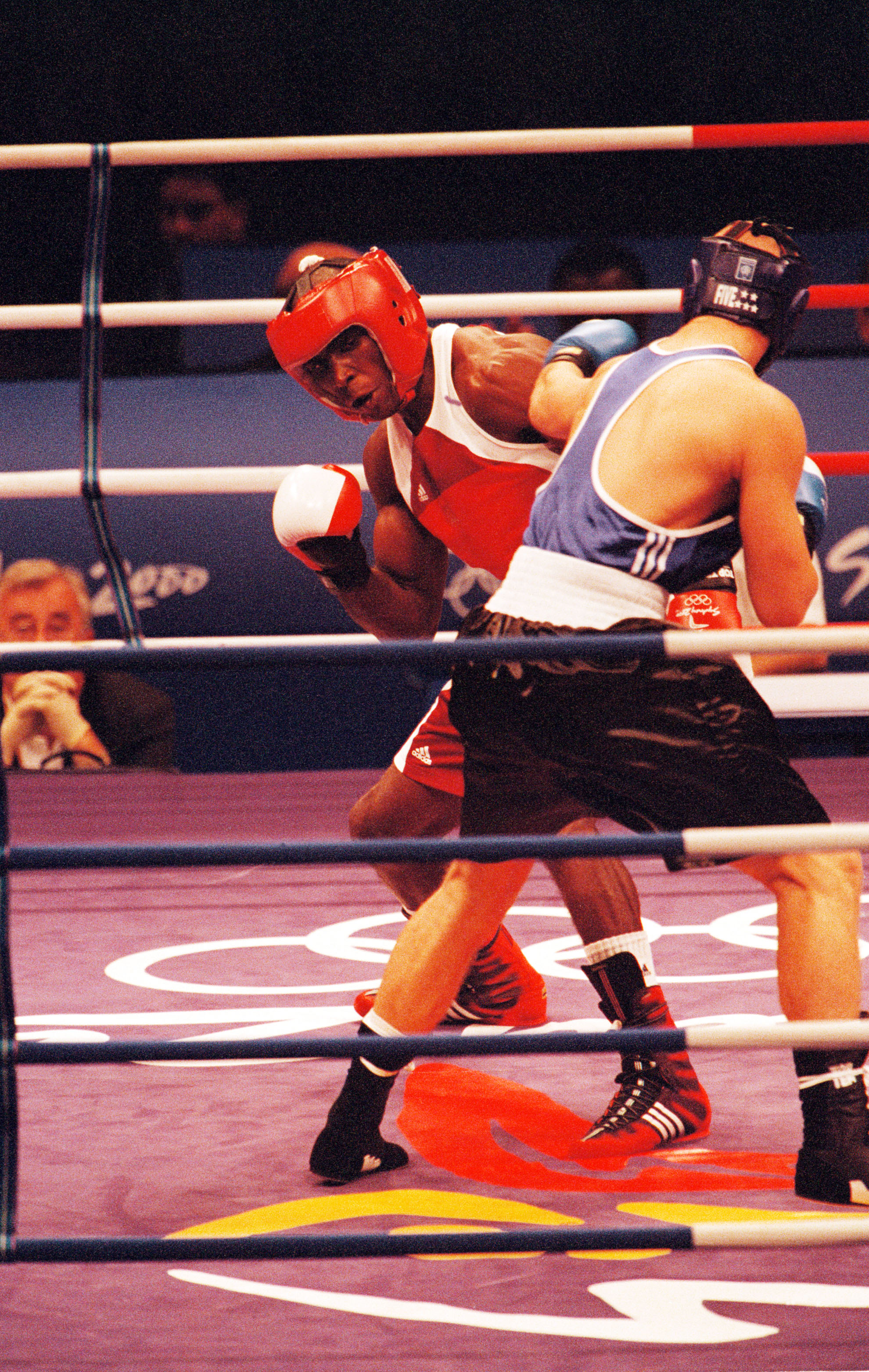 Staff Sgt. Olanda Anderson (left), avoids a jab from his opponent Rudolf Kraj, of the Czech Republic, during the men's light heavyweight boxing match at the 2000 Olympic Games in Sydney, Australia, on Sept. 24, 2000. Anderson is one of fifteen U.S. military athletes competing in the 2000 Olympic games as members of the U.S. Olympic team. In addition to the 15 competing athletes there are eight alternates and five coaches representing each of the four services in various venues. Andersen, who is stationed at Fort Carson, Colo., lost to Kraj 12-13.